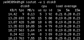 Output of the iostat command on an Apple MacBook Pro running MacOS X, with just a single hard disk.